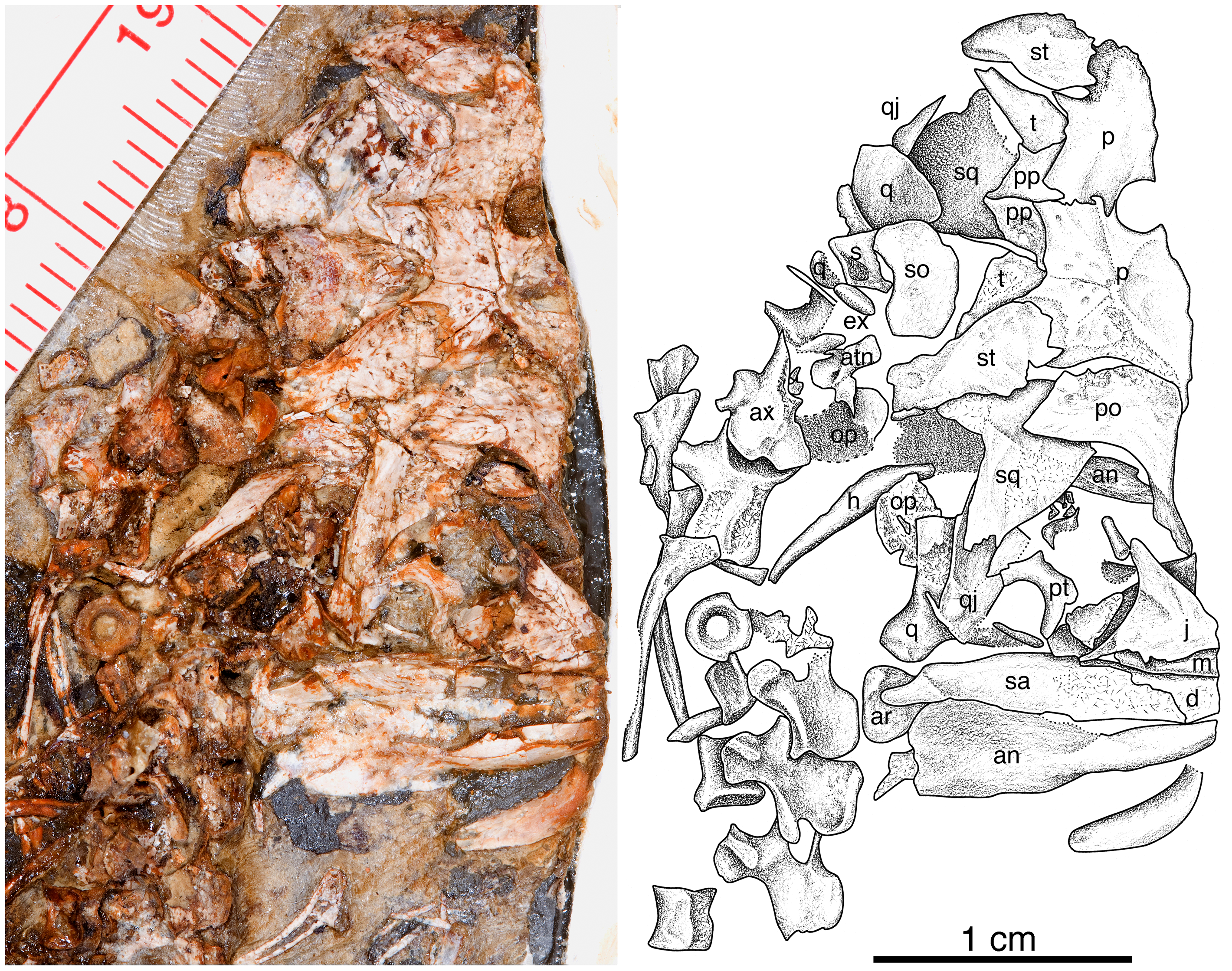 Eocasea martini gen. et sp. nov. Photograph and interpretive drawing of cranial anatomy of KUVP 9616b. Part of the skull table and cheeks, parts of occiput and braincase, and the posterior portion of the right mandible are preserved. Abbreviations: an, angular; ar, articular; atn, atlantal neural arch; ax, axis; d, dentary; ex, exoccipital; h, hyoid; j, jugal; m, maxilla; op, opisthotic; p, parietal, po, postorbital; pp, postparietal; pt, pterygoid; q, quadrate; qj, quadratojugal; s, stapes; sa, surangular; so, supraoccipital; sq, squamosal; st, supratemporal; t, tabular.